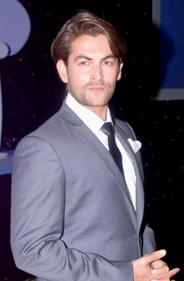 Neil Nitin Mukesh at the Volkswagen event in 2012.